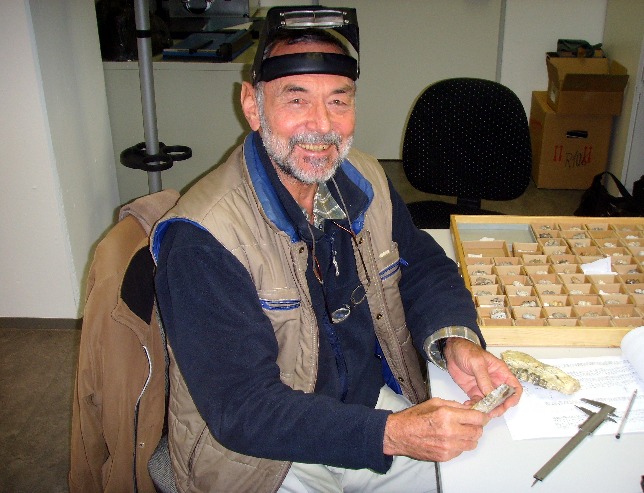 Martin Pickford, paleontologist and paleoanthropologist